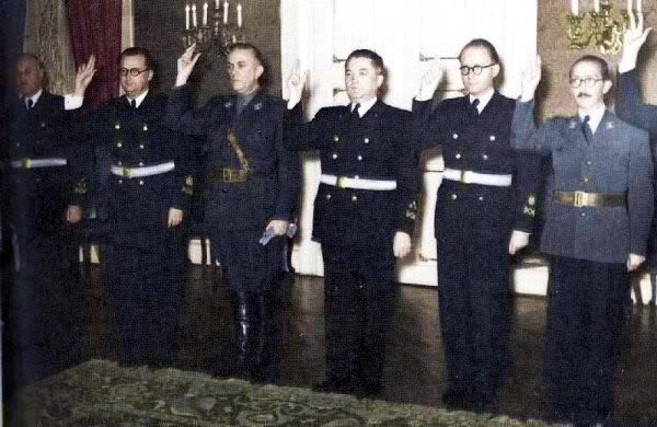 Inauguration of the Government of NDH